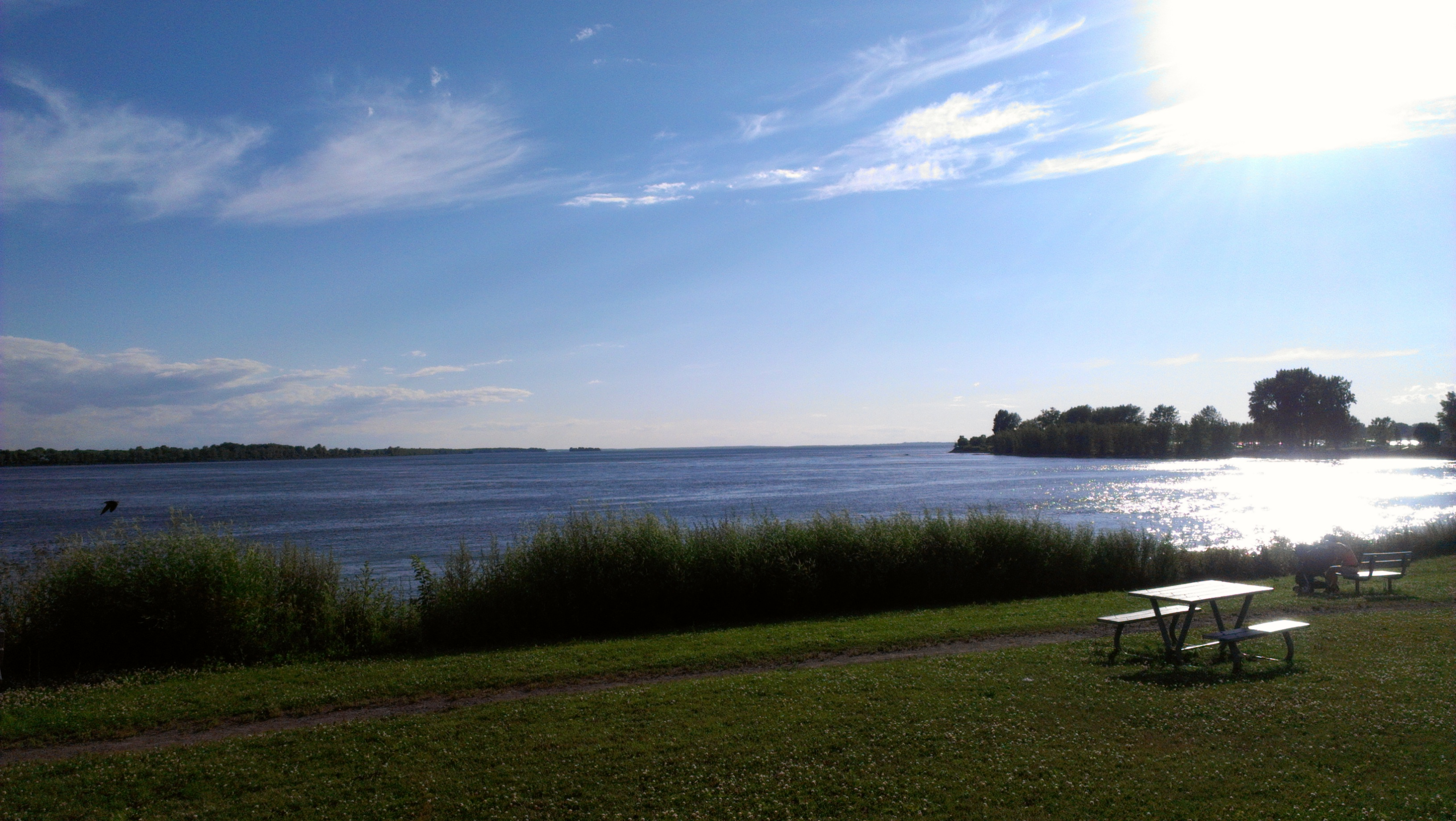 Waterfront